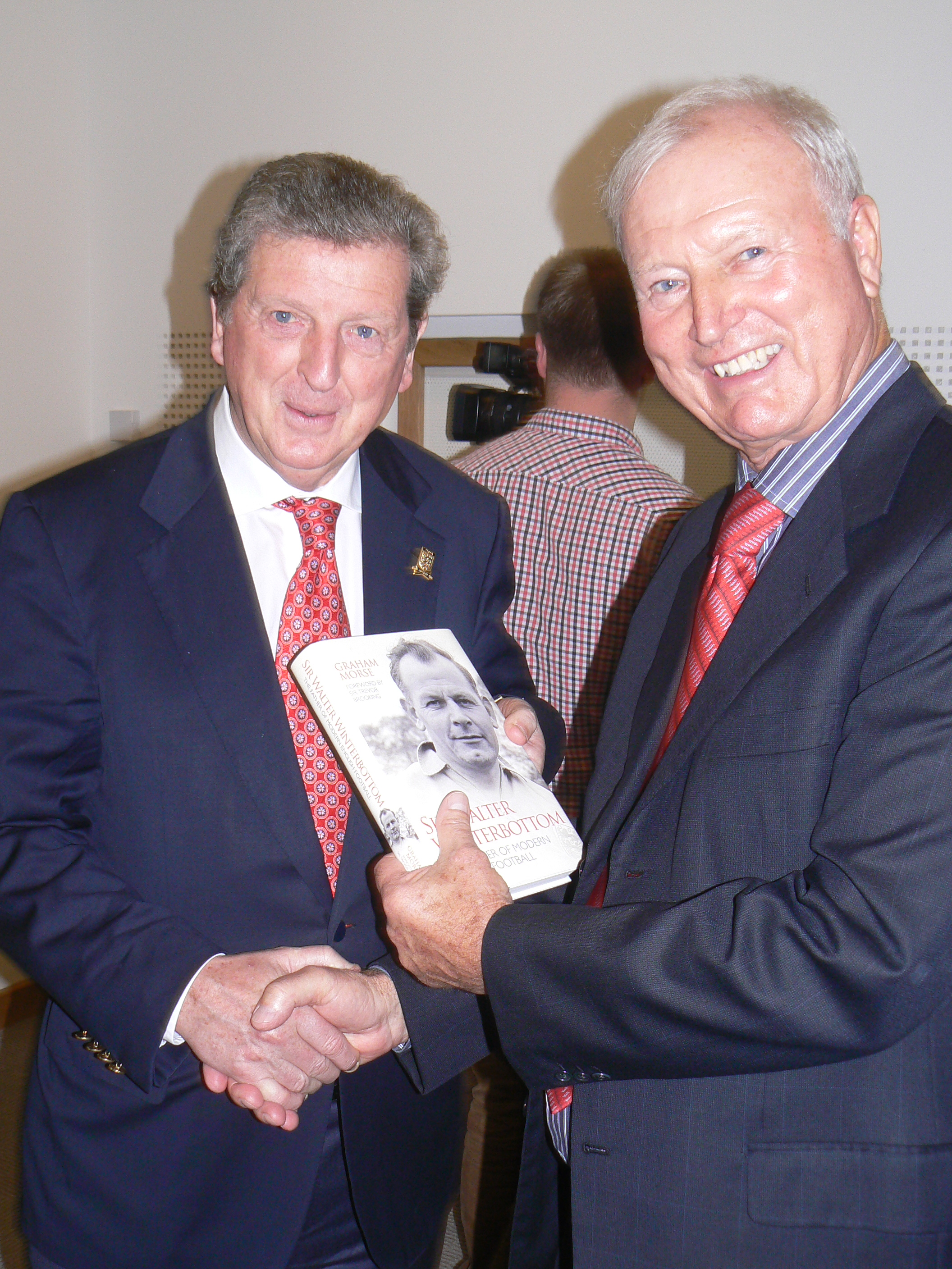 Roy Hodgson and Graham